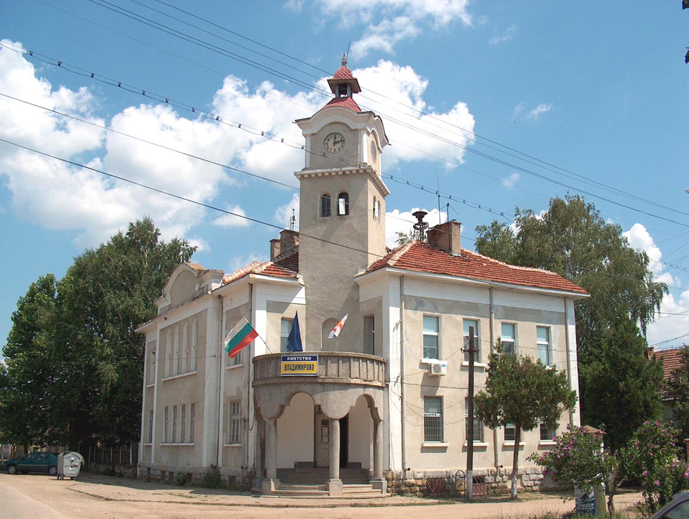 municipality hill, vill. vladimirovo, reg. montana, bulgaria